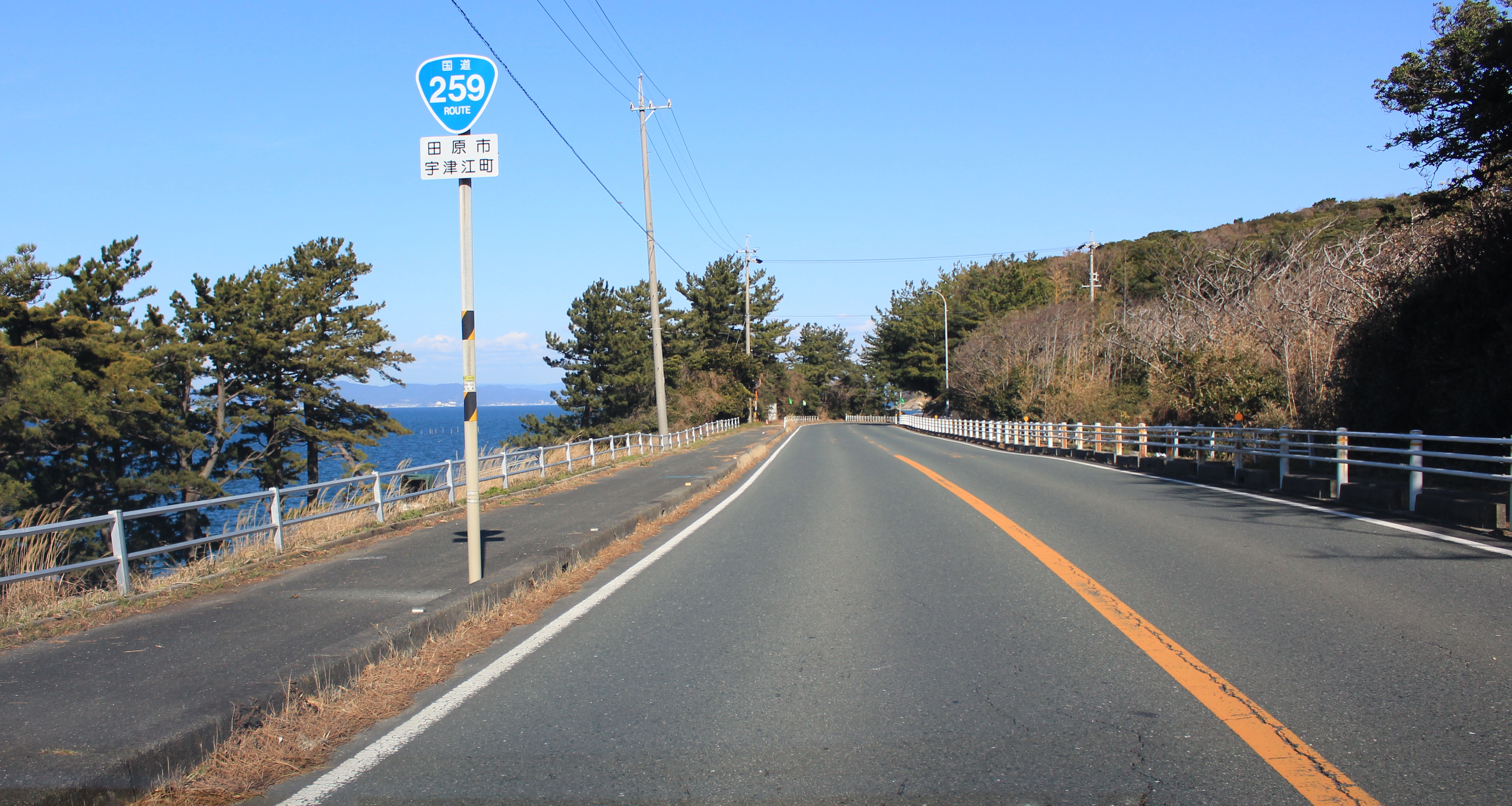 Route 259 in Utsue, Tahara, Aichi prefecture, Japan.